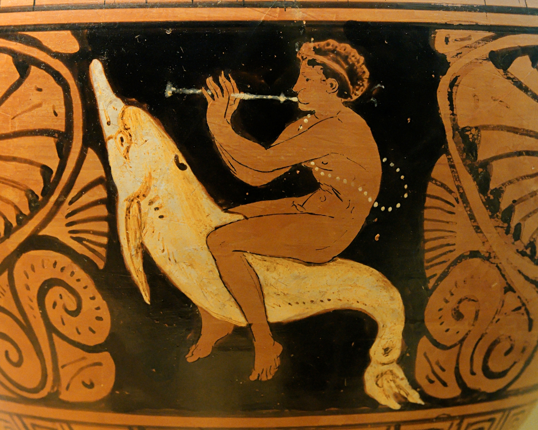 Youth playing the flute and riding a dolphin. Red-figure stamnos, 360–340 BC. From Etruria.